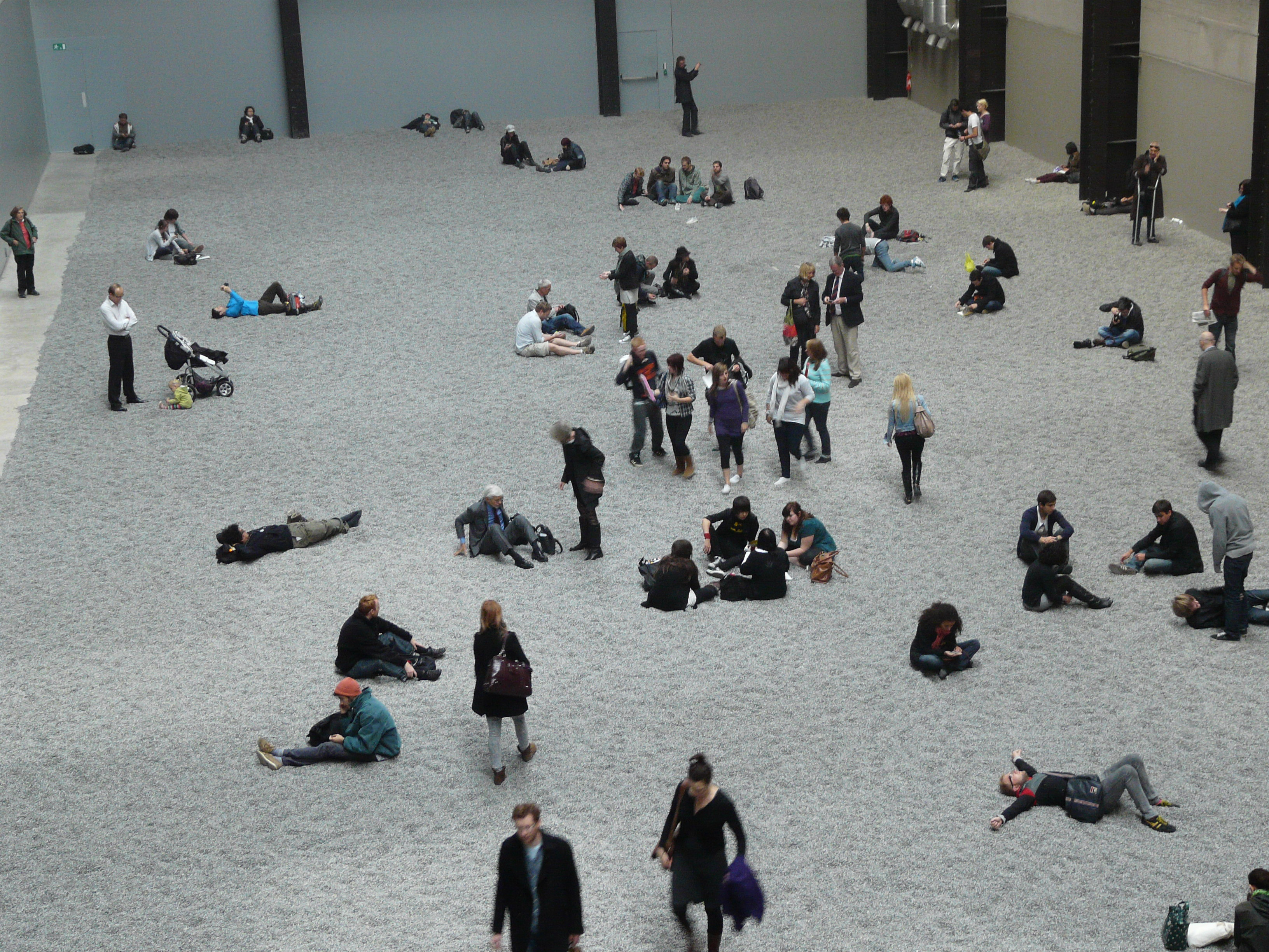 'Sunflower Seeds' by Ai Weiwei, Tate Modern Turbine Hall. This photo was taken on October 12, 2010 in Blackfriars Road, London, England, GB, using a Panasonic DMC-FZ18.